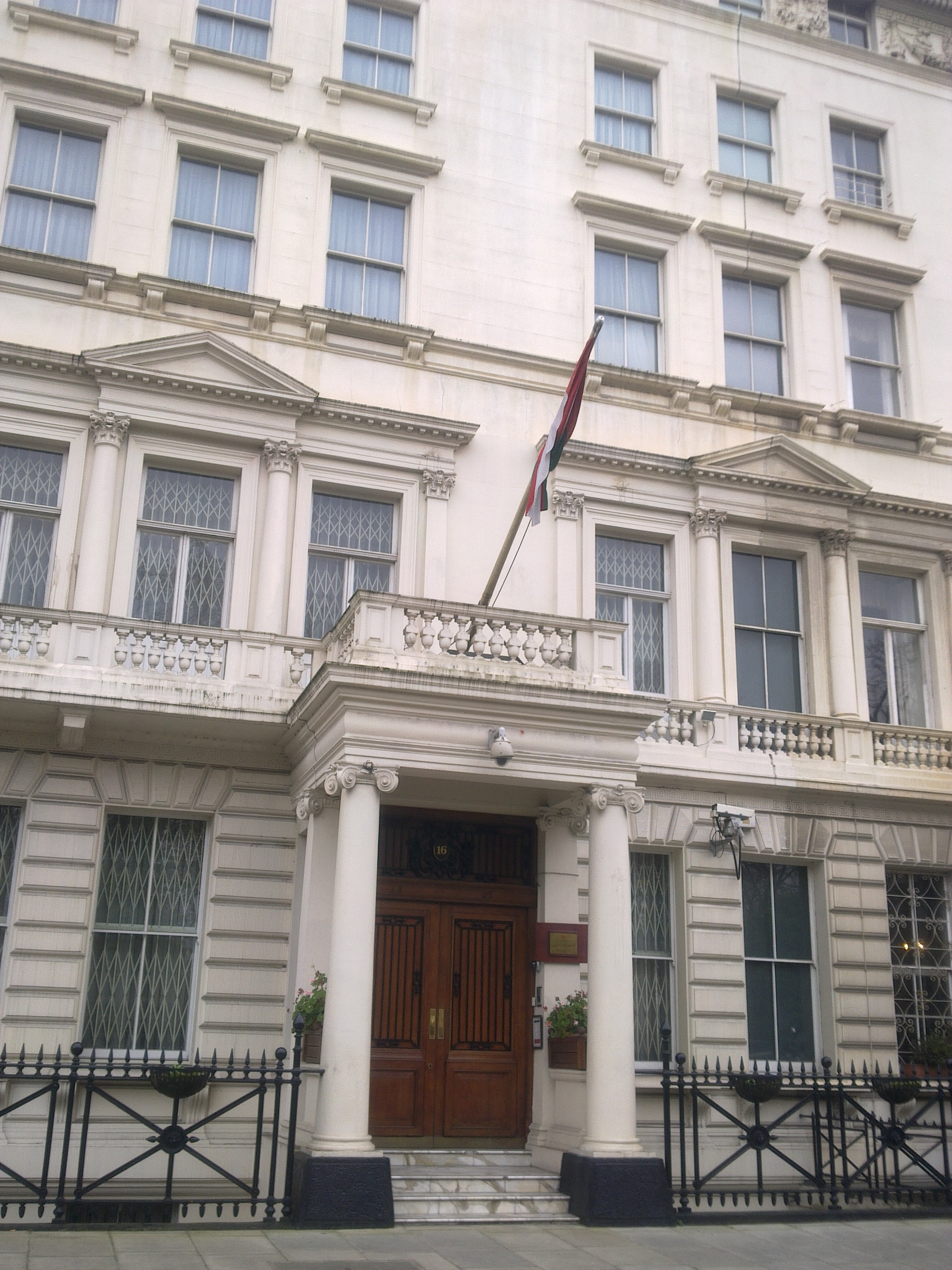 Embassy of Iran, London 1